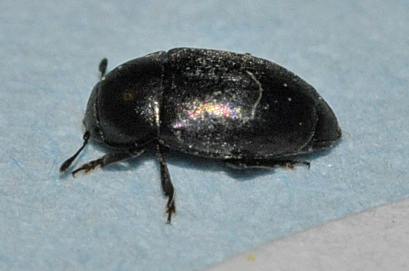 Meligethes atratus (Olivier, 1790). Germany: Niedersachsen, Göttingen.